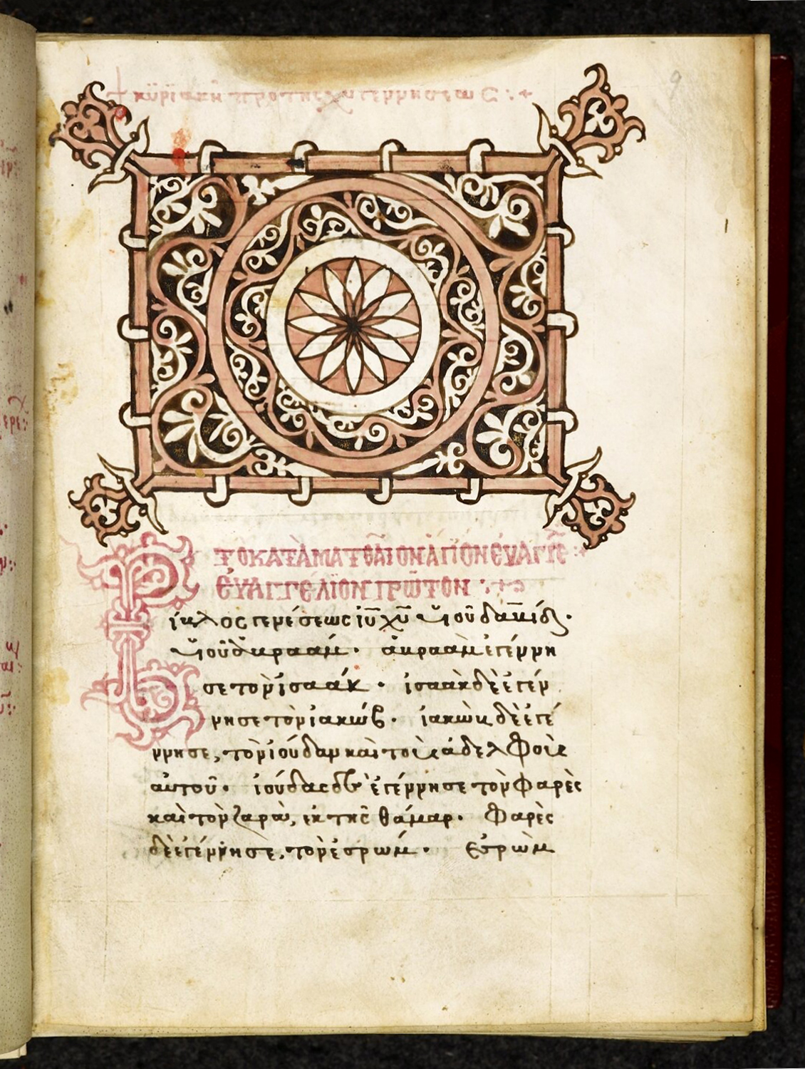 Folio 9 from the codex; beginning of the Gospel of Matthew